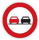 Road sign of the Czech Republic